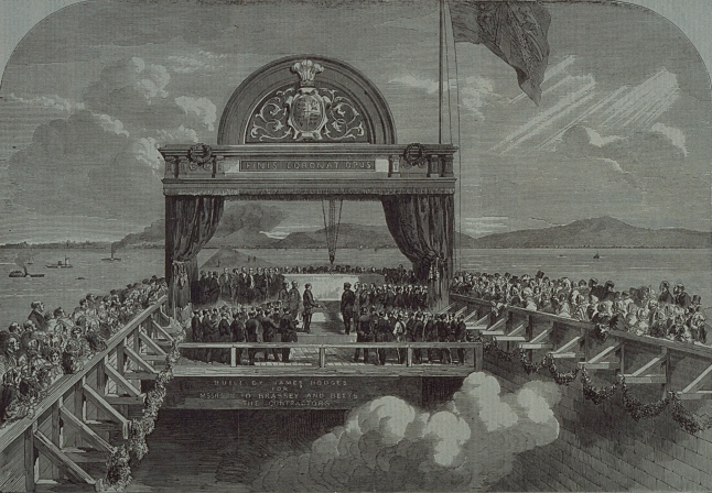 The Prince of Wales Laying the Last Stone of the Victoria Bridge Over the St. Lawrence. Montreal, Canada